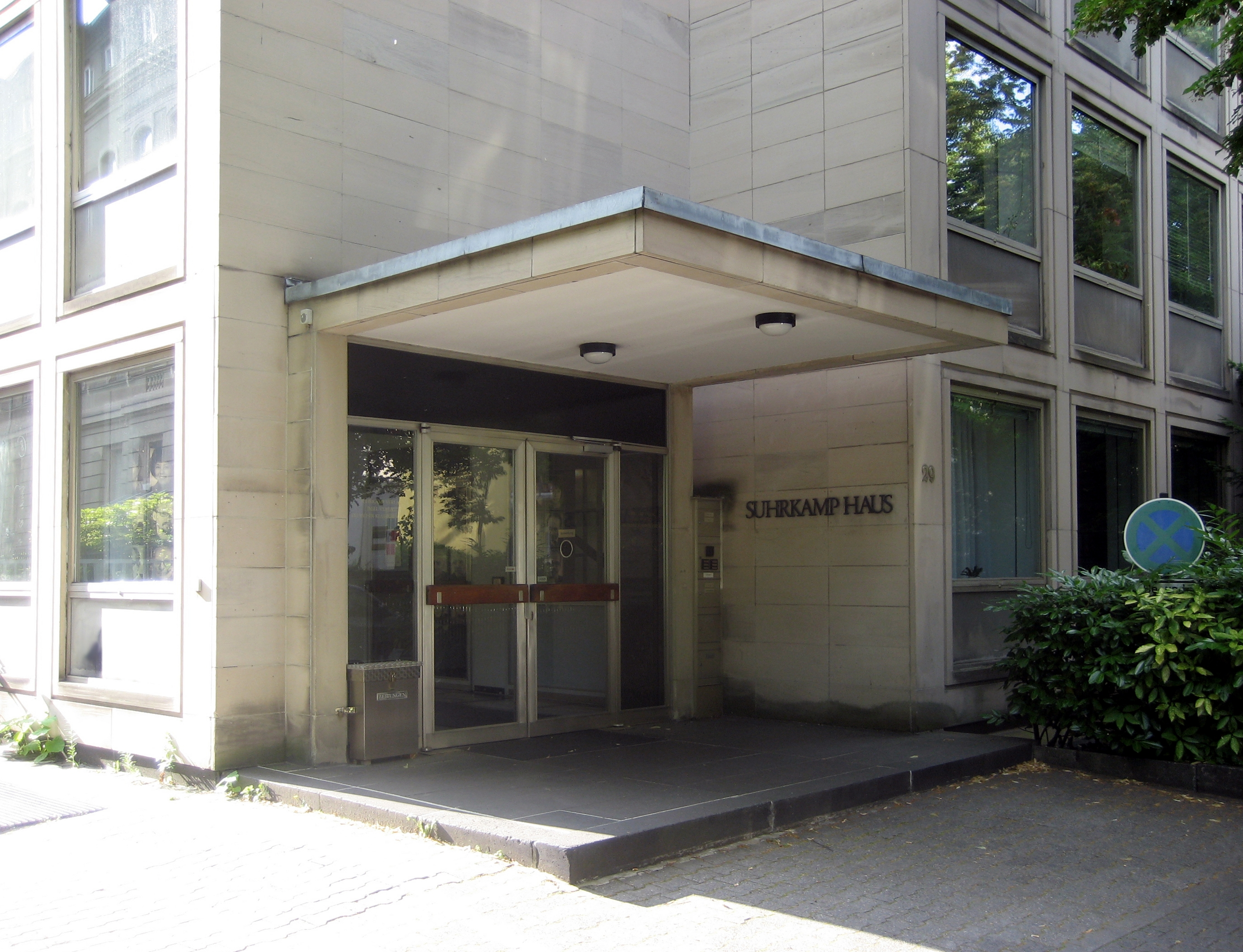 Entrance of the headquarters of Suhrkamp Verlag in Frankfurt, Lindenstraße